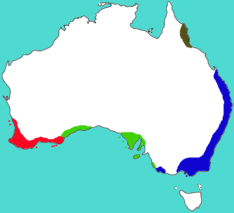 Rattus fuscipes (Buschratte, Bush rat), distribution on subspecies-level:red=R. f. fuscipes; green=R. f. greyi, blue=R. f. assimilis, brownish=R. f. coracius